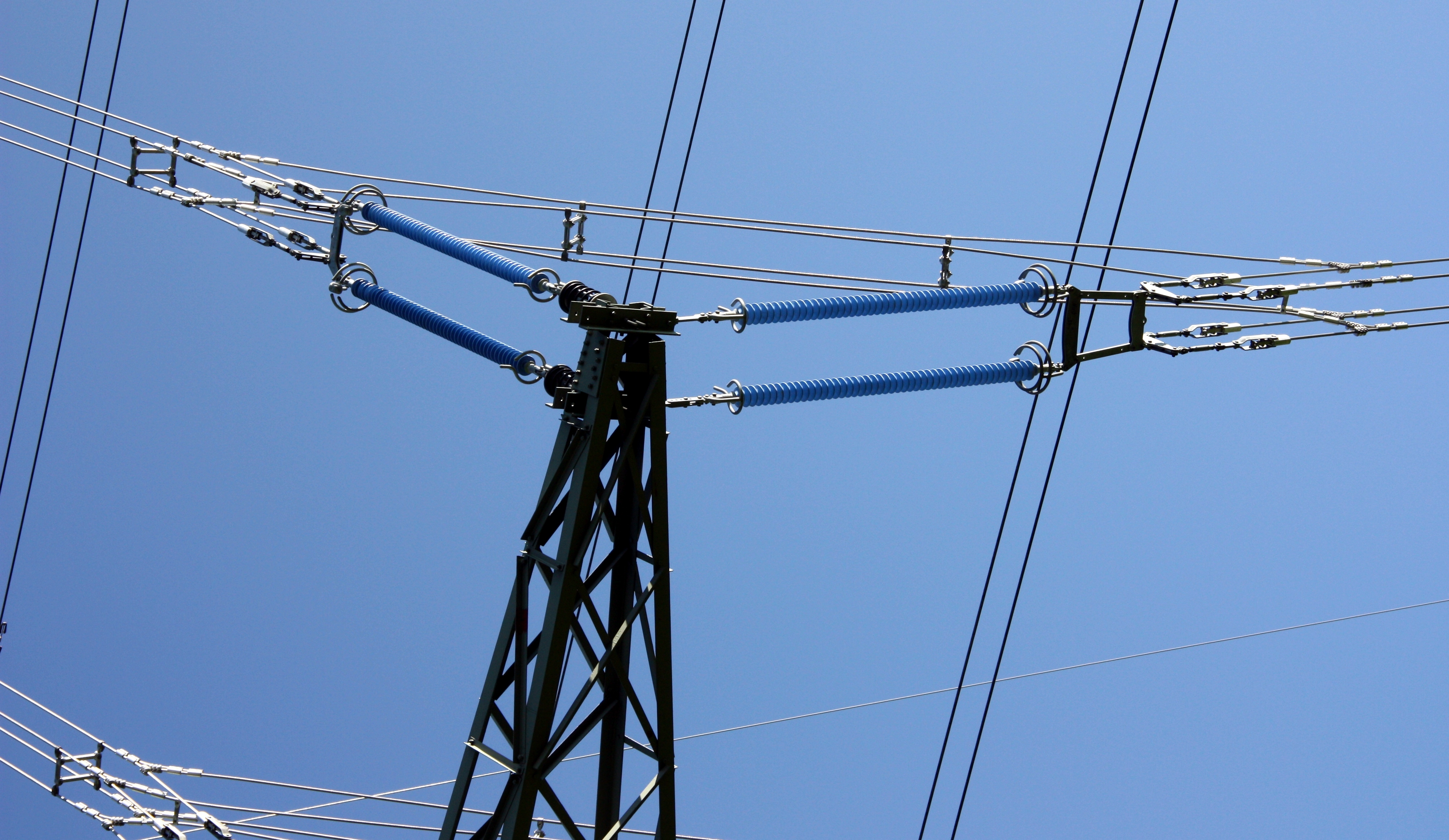 Strain insulators on an anchor pylon of a 380 kilovolt transmission line in Rommelsbach, Germany. The metal rings at the ends of the insulator are called corona rings, and reduce the electric field at sharp points on the mounting hardware to prevent corona discharge, which causes leakage of current from the line